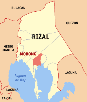 Locator map of Morong in Rizal, Philippines.